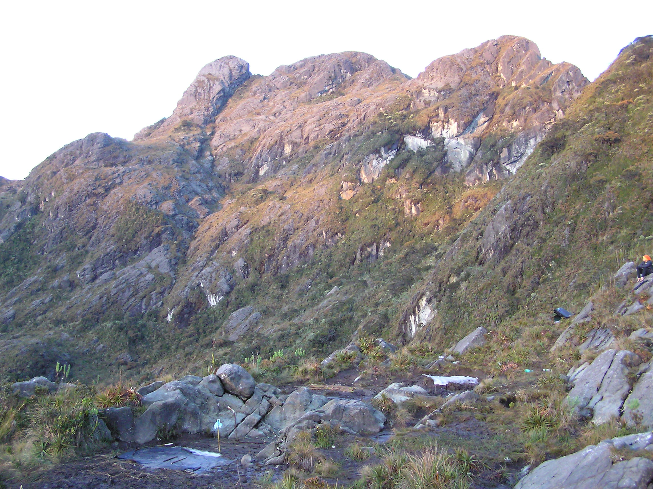 Acampadero "Balcones", al fondo se ve el pico "cabú" o "elefante"